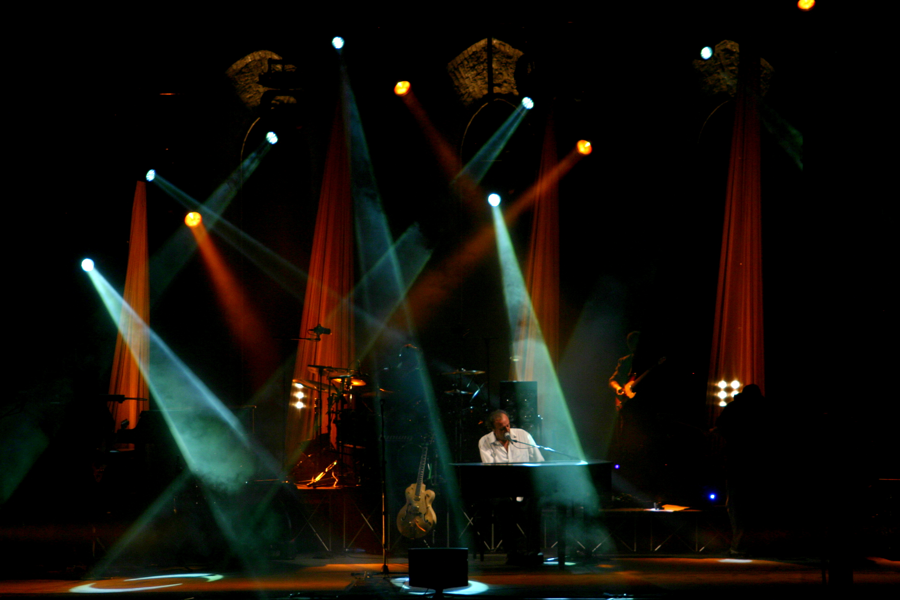 Italian singer-songwriter Ivano Fossati.